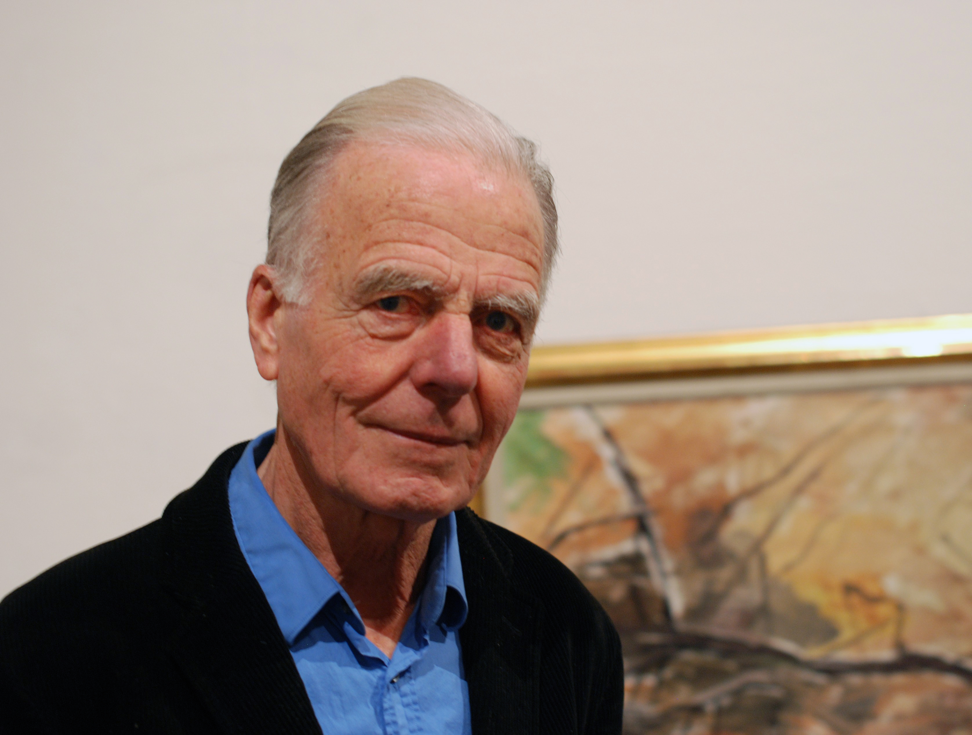 Swedish painter and sculptor Staffan Nihlén, standing in front of a late painting by Swedish painter Huga Zuhr (Hugo Suhr at the Swedish Academy of Arts in Stockholm.